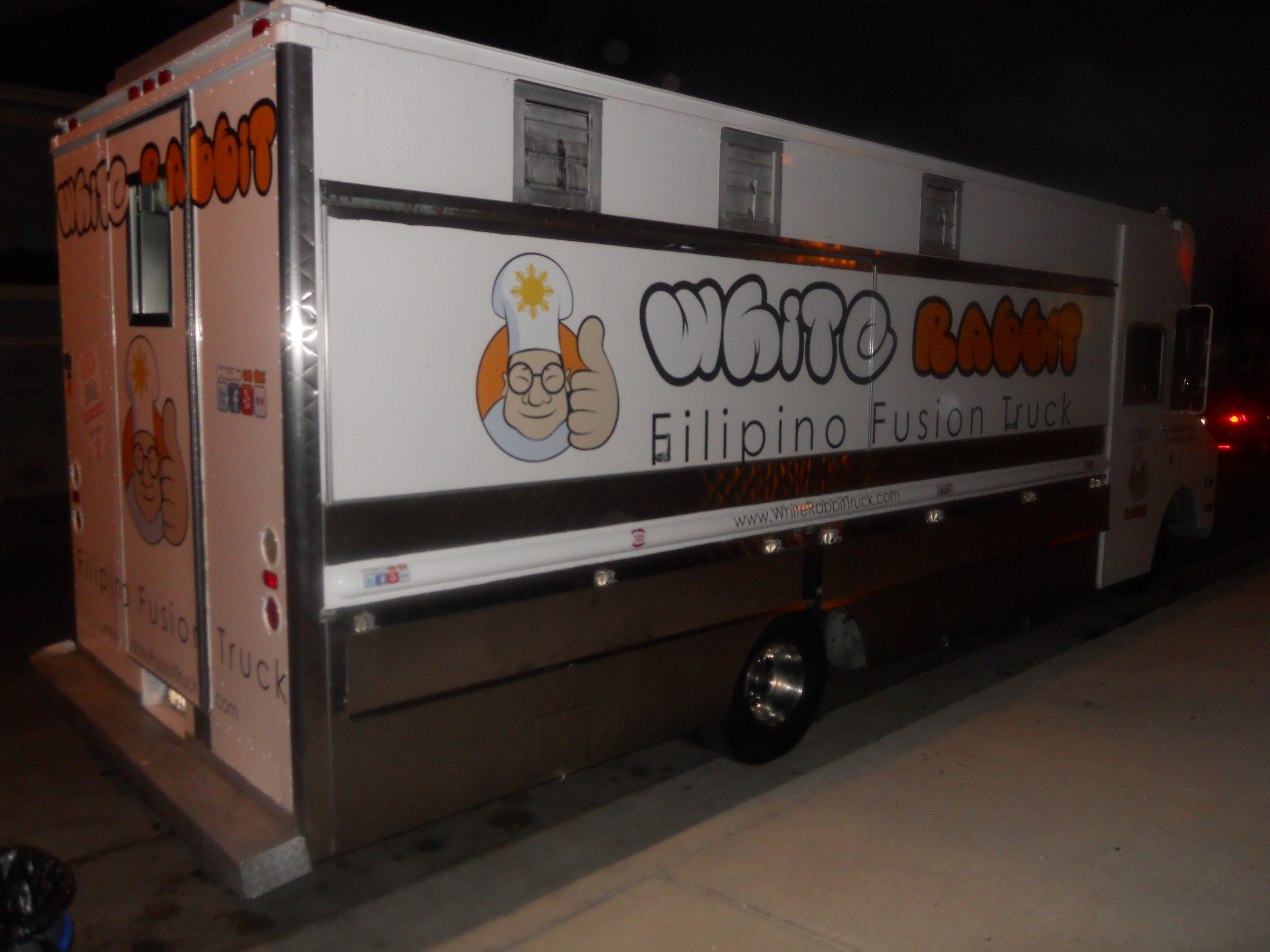 White Rabbit Filipino Fusion Food Truck as seen parked at Santa Clarita, California